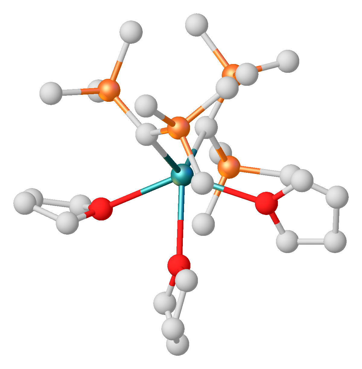 Structure of Ba(CH(tms)2)2(thf)3, with H atoms omitted from doi 10.1002/chem.200801957.